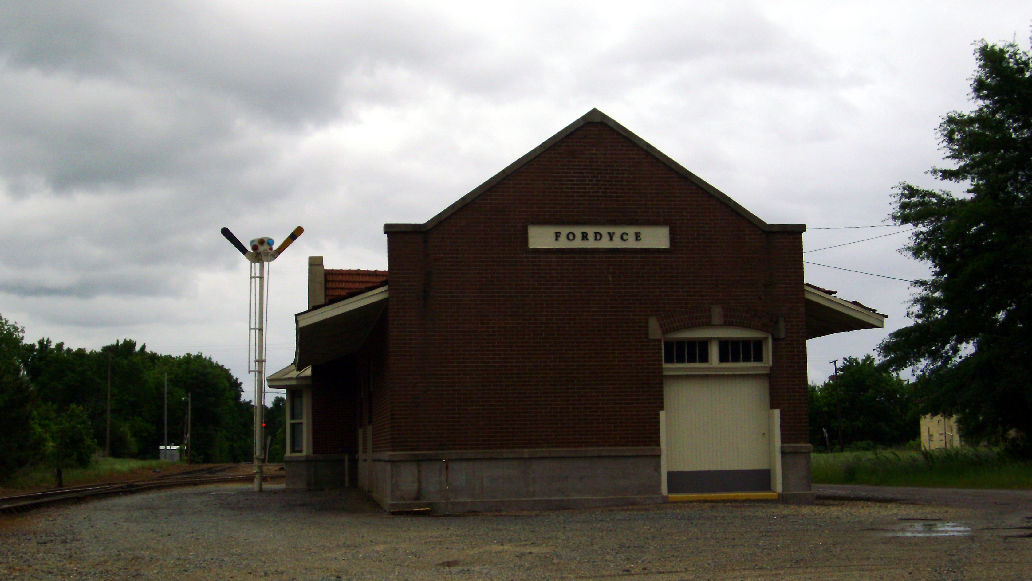 Shot of the apparently 1925-built Rock Island Railway Depot, a historic former train station on Third Street in Fordyce, Arkansas. Built by the Chicago, Rock Island and Pacific Railroad, it is currently listed on the National Register of Historic Places.